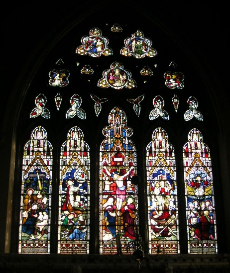 Church of England parish church of St Peter, Burnham, Buckinghamshire: east window, with stained glass by Clayton and Bell.